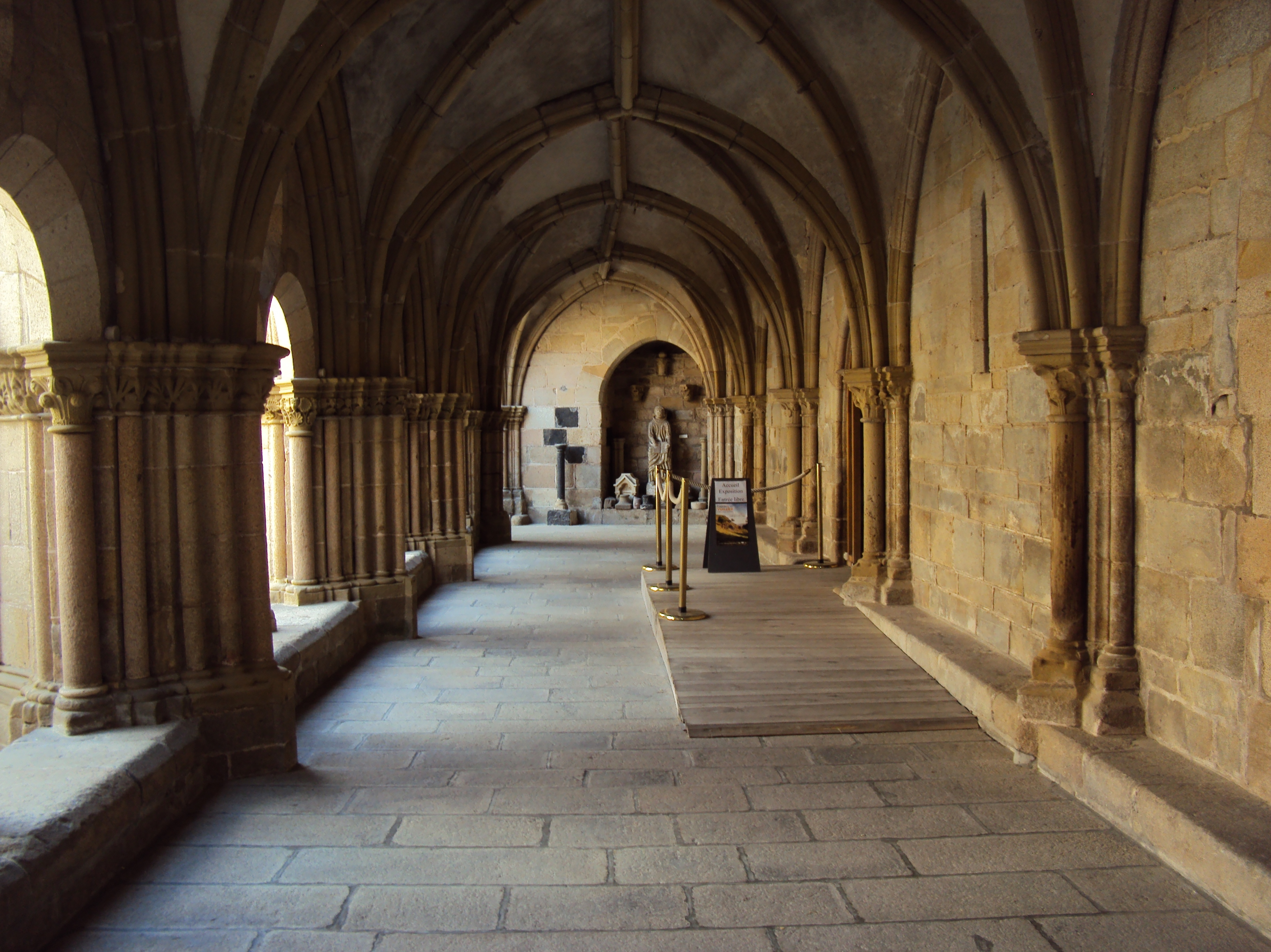 Cloister of the abbaye Saint-Martin et Saint-Michel, entry of the musée du Cloître in Tulle, Corrèze, France.